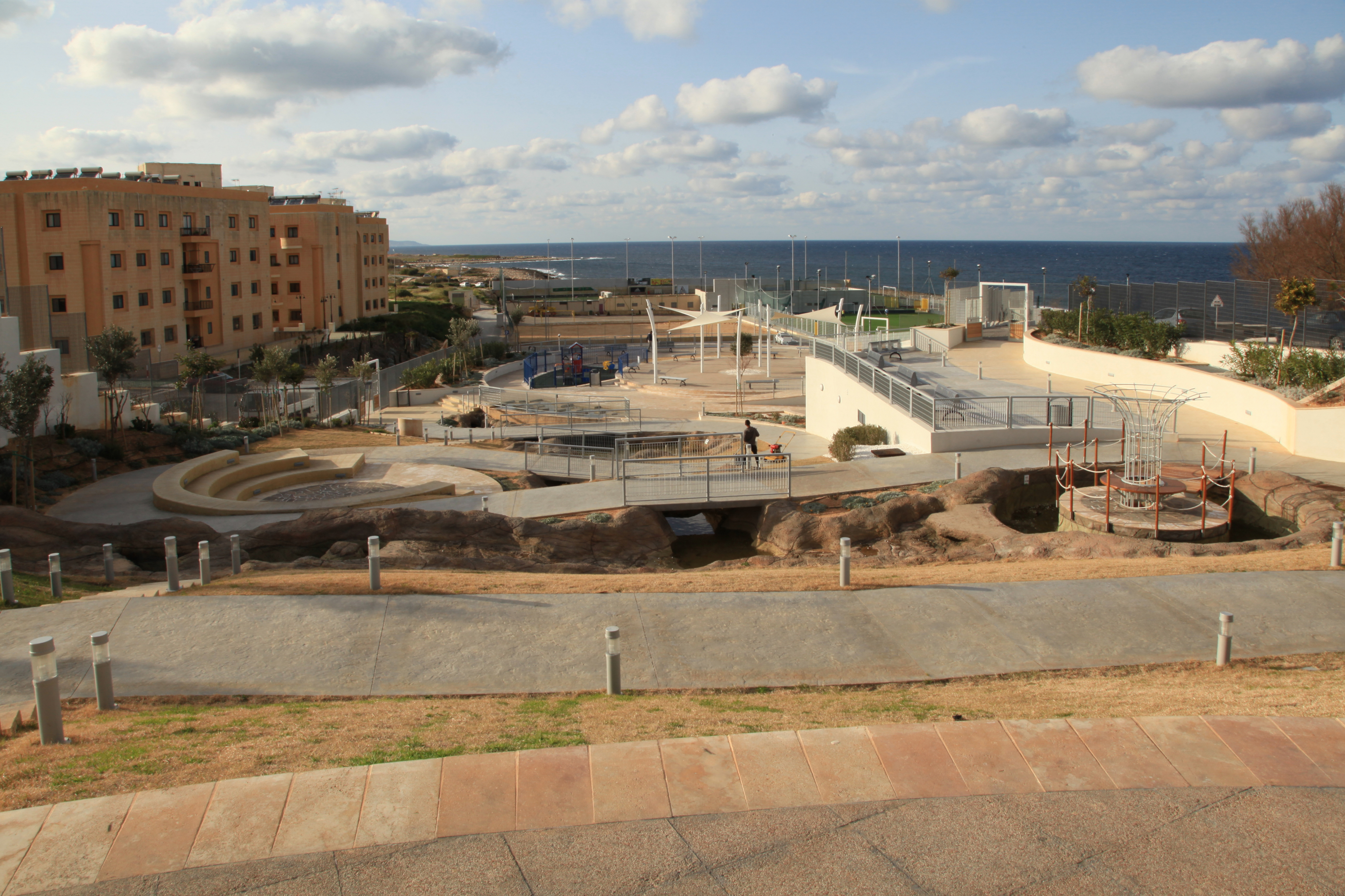 Pembroke Gardens (Ġnien Pembroke) at Triq Pietro D'Armenia in Pembroke, Malta